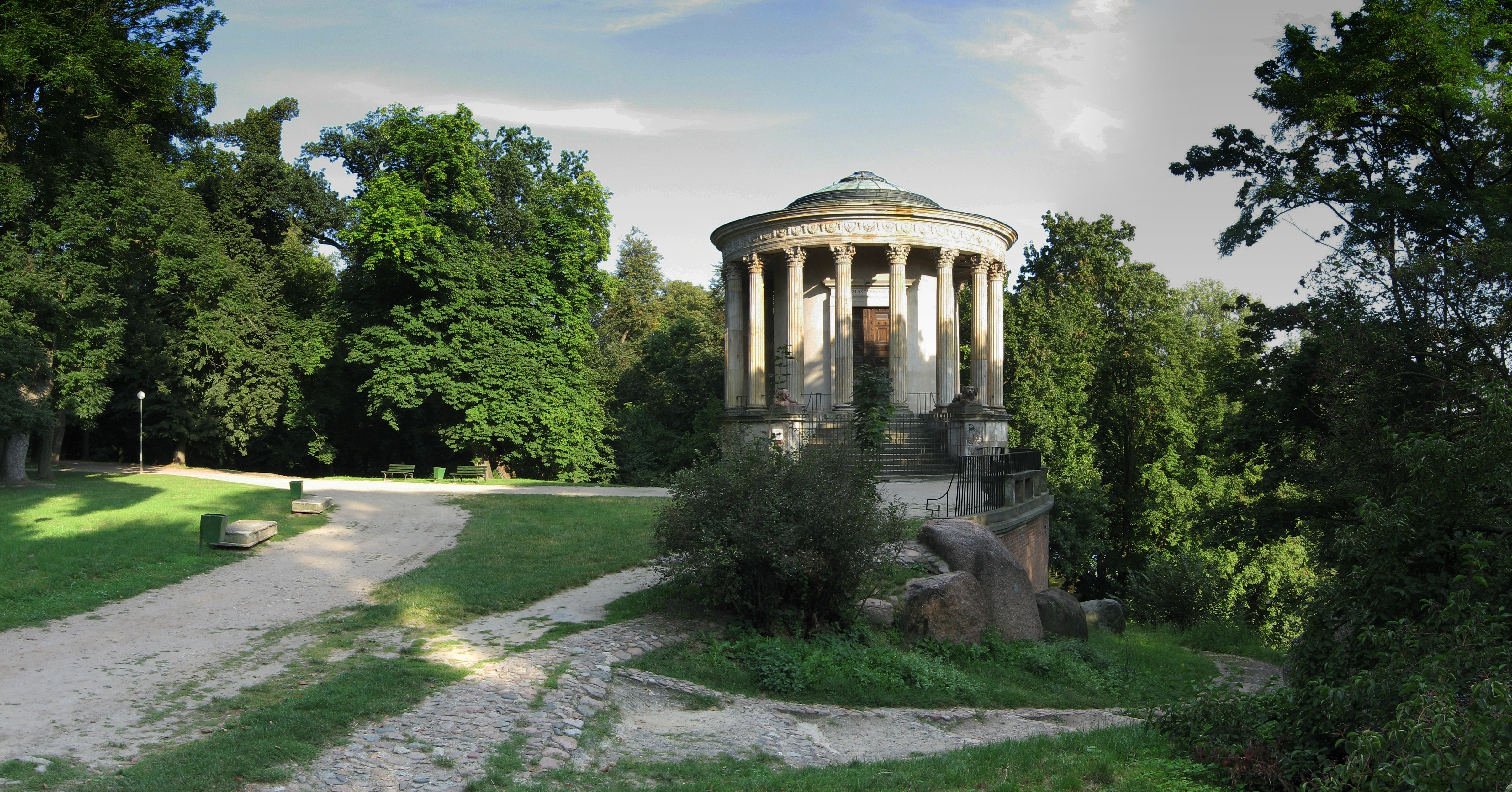 Wide view of Sybil Temple in Pulawy, Poland. Mounted from 4 vertical photos taken by Canon A540.